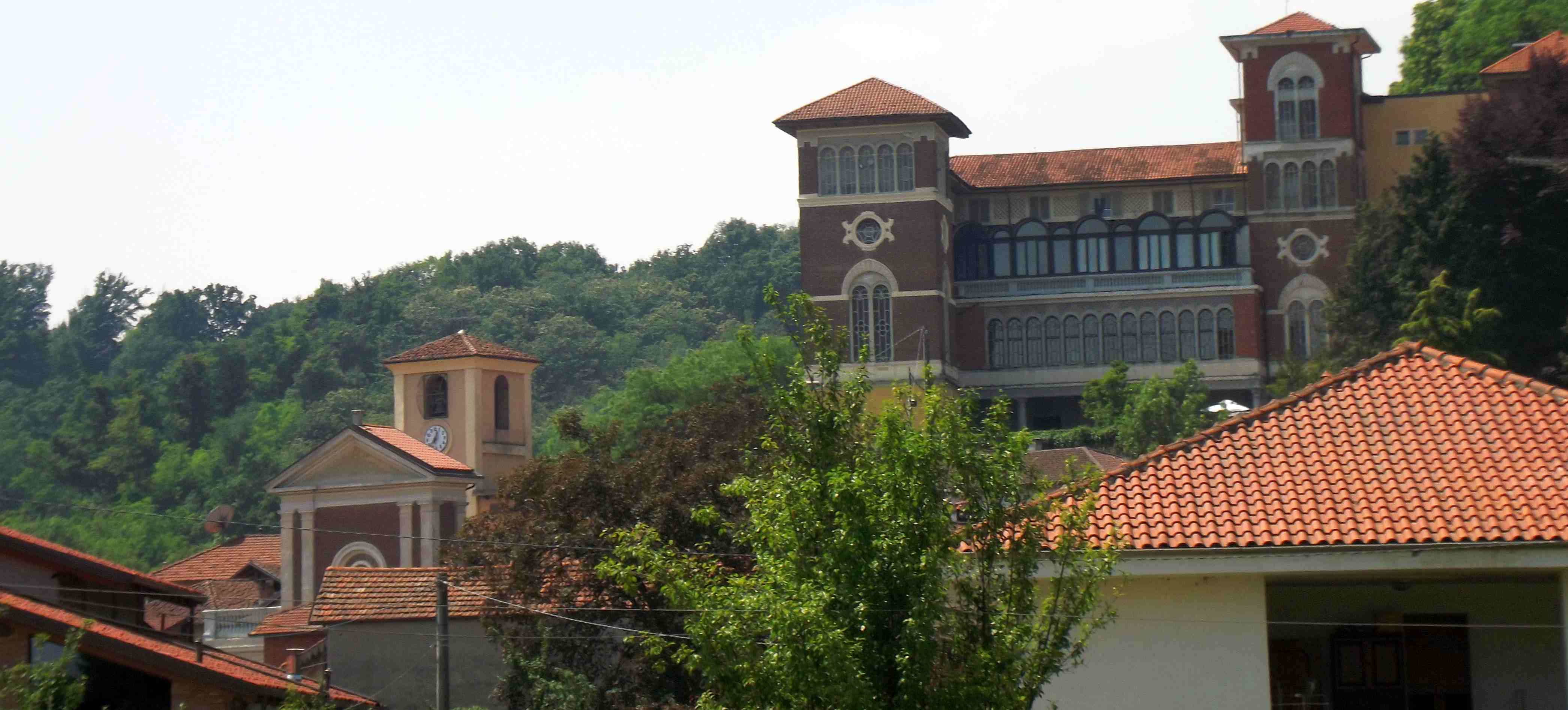 Front Canavese (TO, Italy): panorama